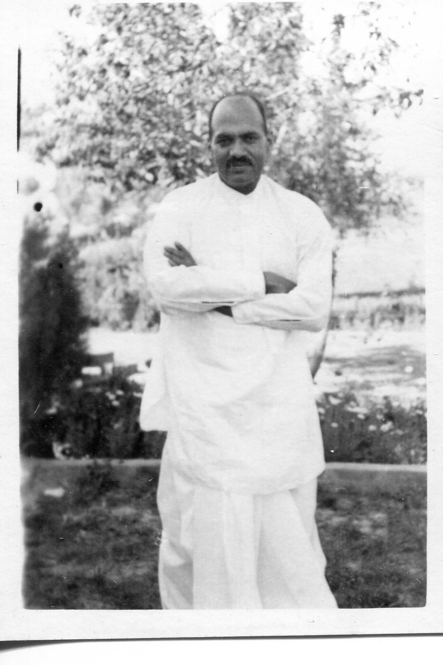 Clicked during an event